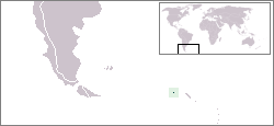 Location of Shag Rocks in the Southern Atlantic Ocean